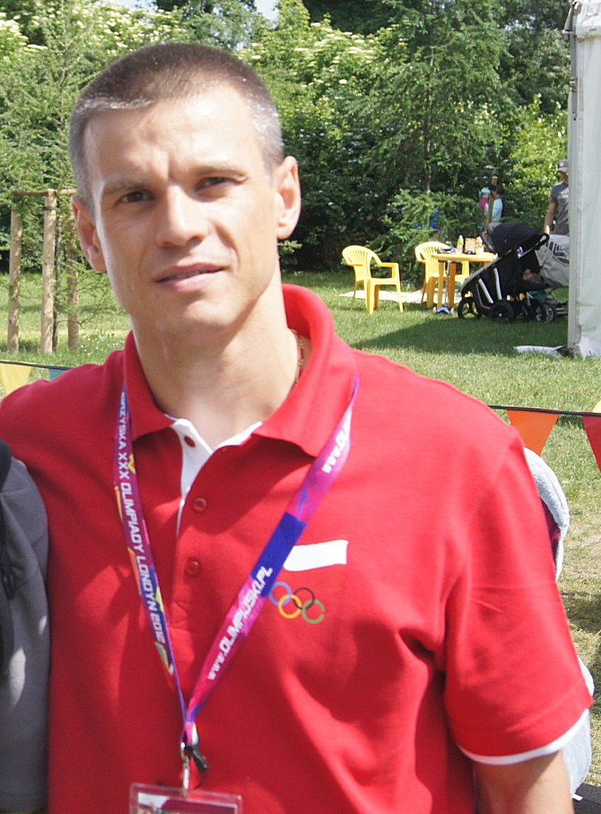 Robert Mateusiak, polish Badminton player.